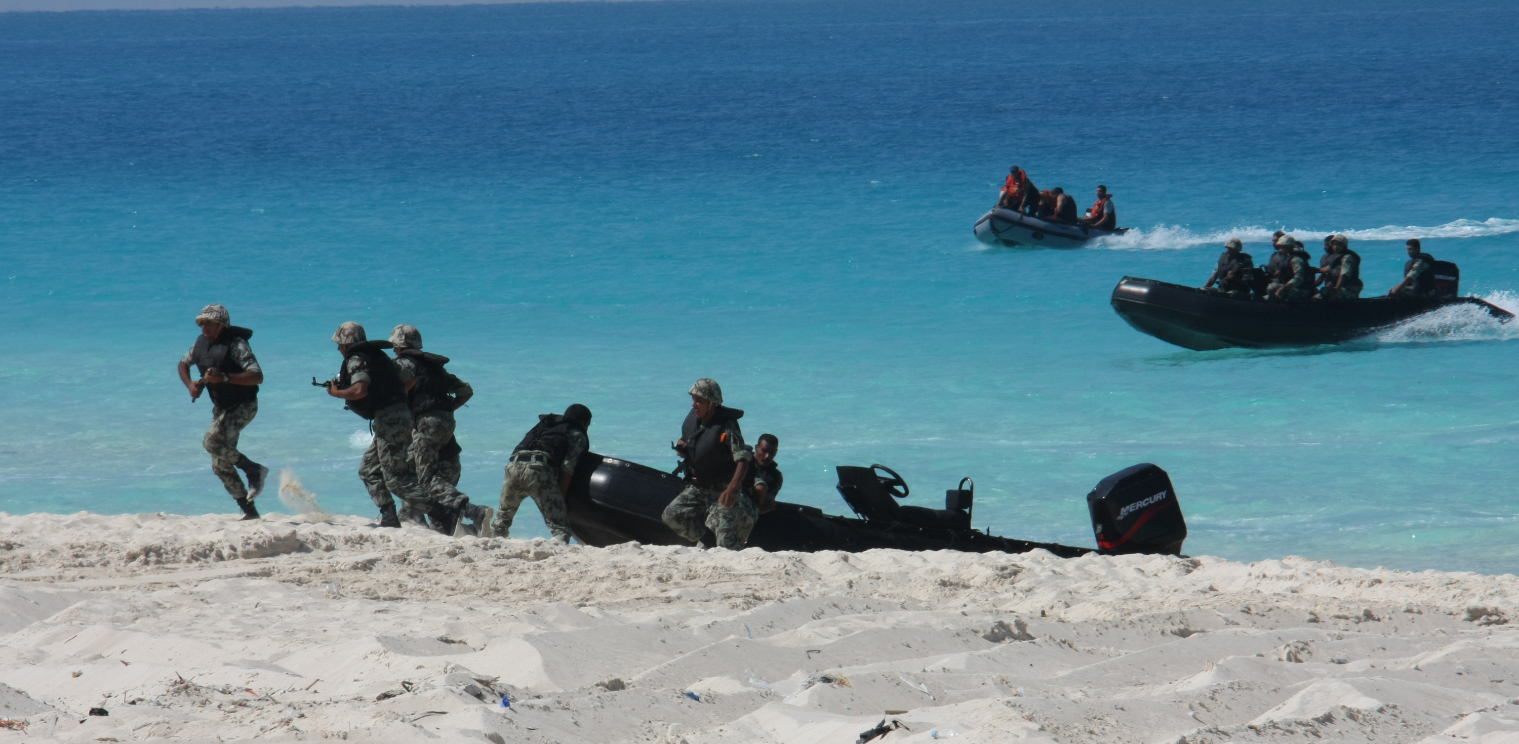 Egyptian special forces assault the beach during an amphibious assault demonstration conducted as part of Bright Star 2009 in Egypt Oct. 12, 2009. The multinational exercise is designed to improve readiness, interoperability, strengthen the military and professional relationships among U.S., Egyptian and participating forces. Bright Star is conducted by U.S. Central Command and held every two years. (Official Marine Corps photo by Staff Sgt. Matt Epright)